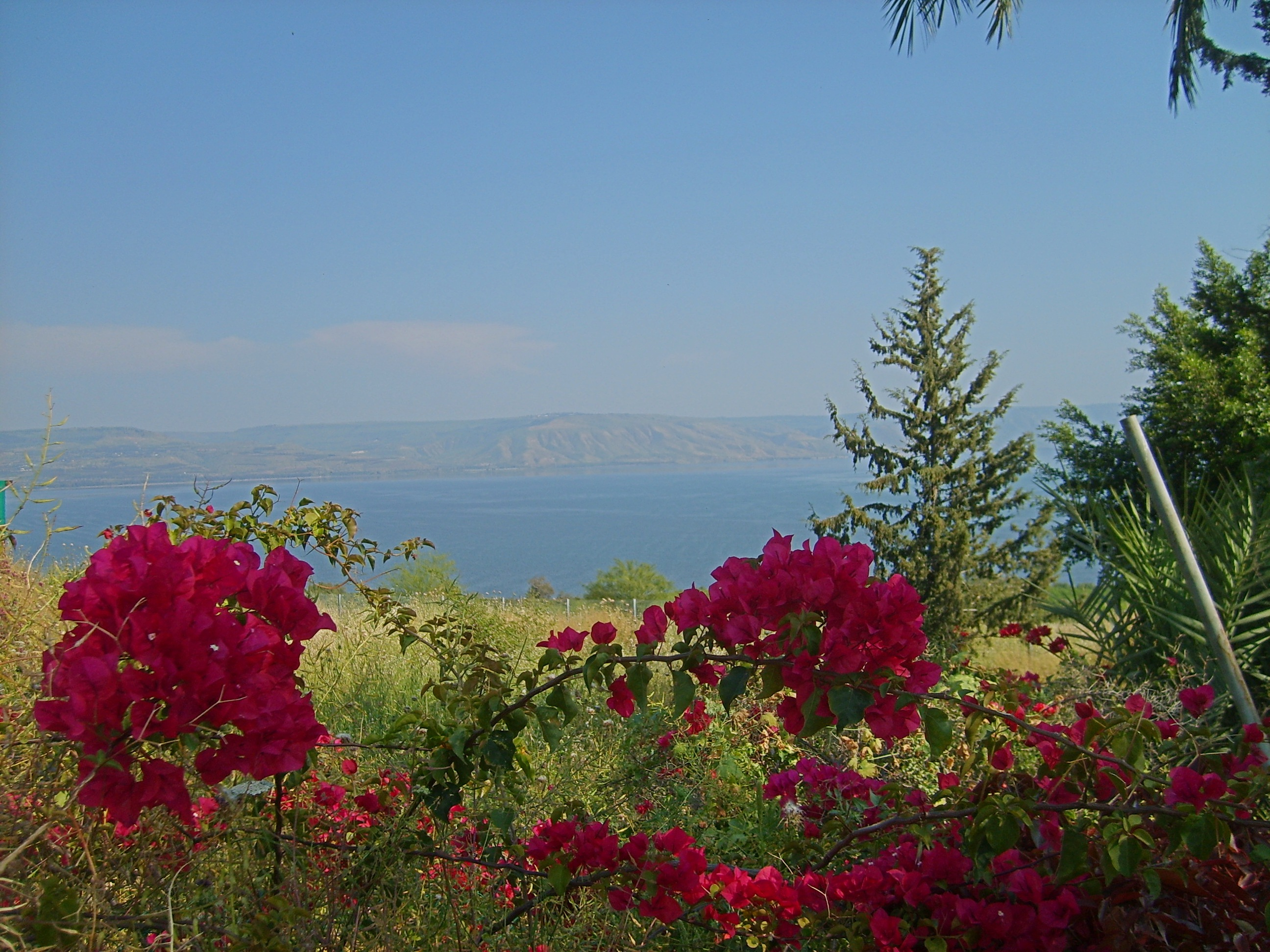 View at the Sea of Galilee with the Golan Heights at the background - seen from the Catholic church at the Mount of Beatitudes.